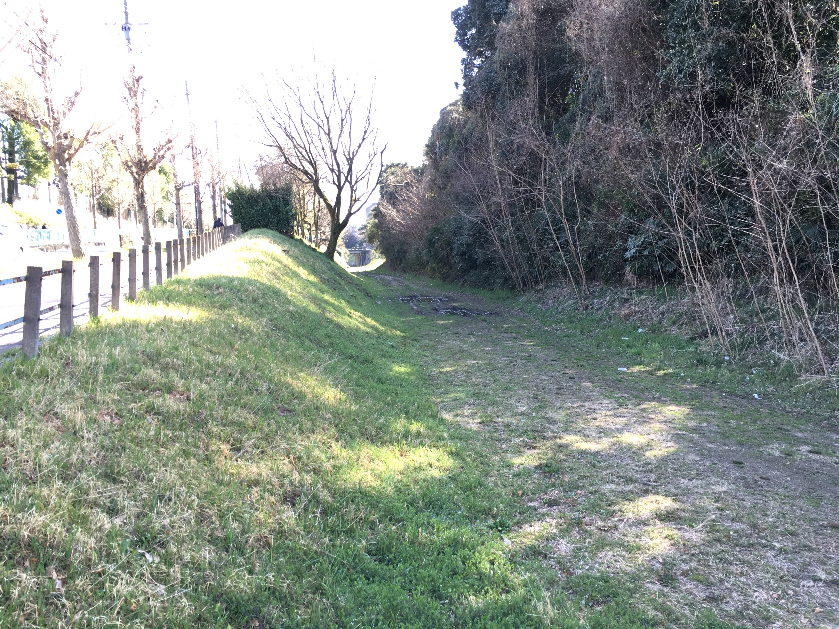 the site of Doishita station (Meitetsu Seto Line)